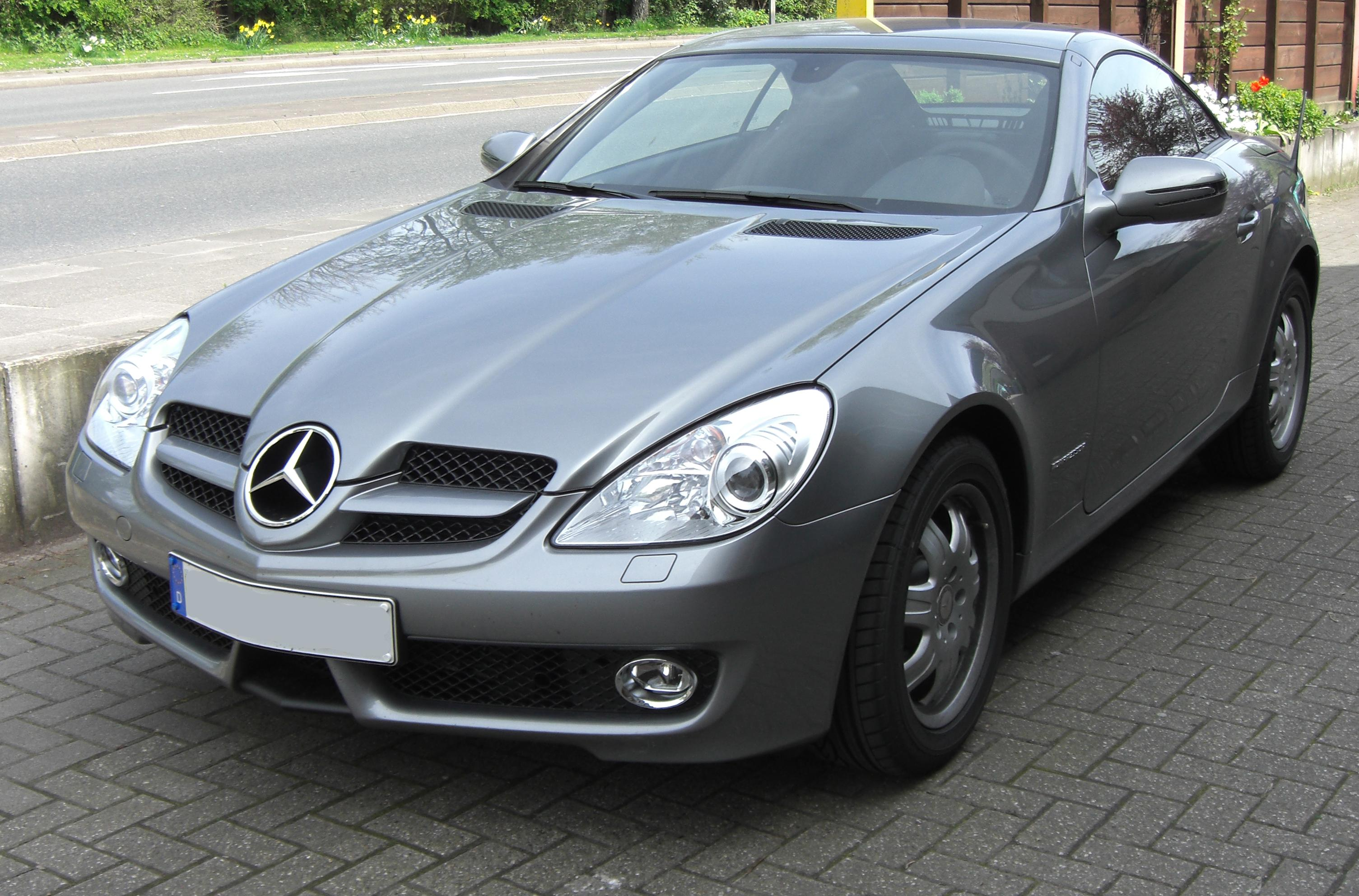 Mercedes SLK 200K Facelift